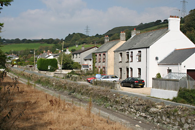 Roadside Houses at Ruddlemoor